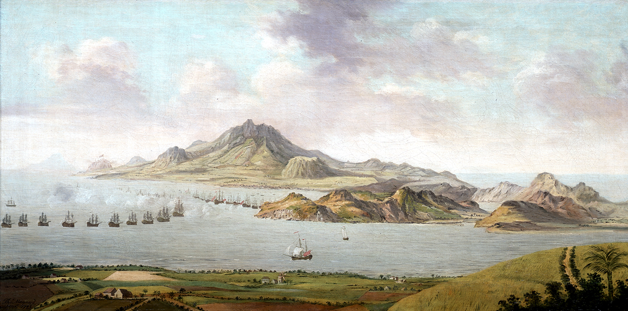 Battle of St. Kitts between the wings of the comte de Grasse and Hood in January 1782. (West Indies)